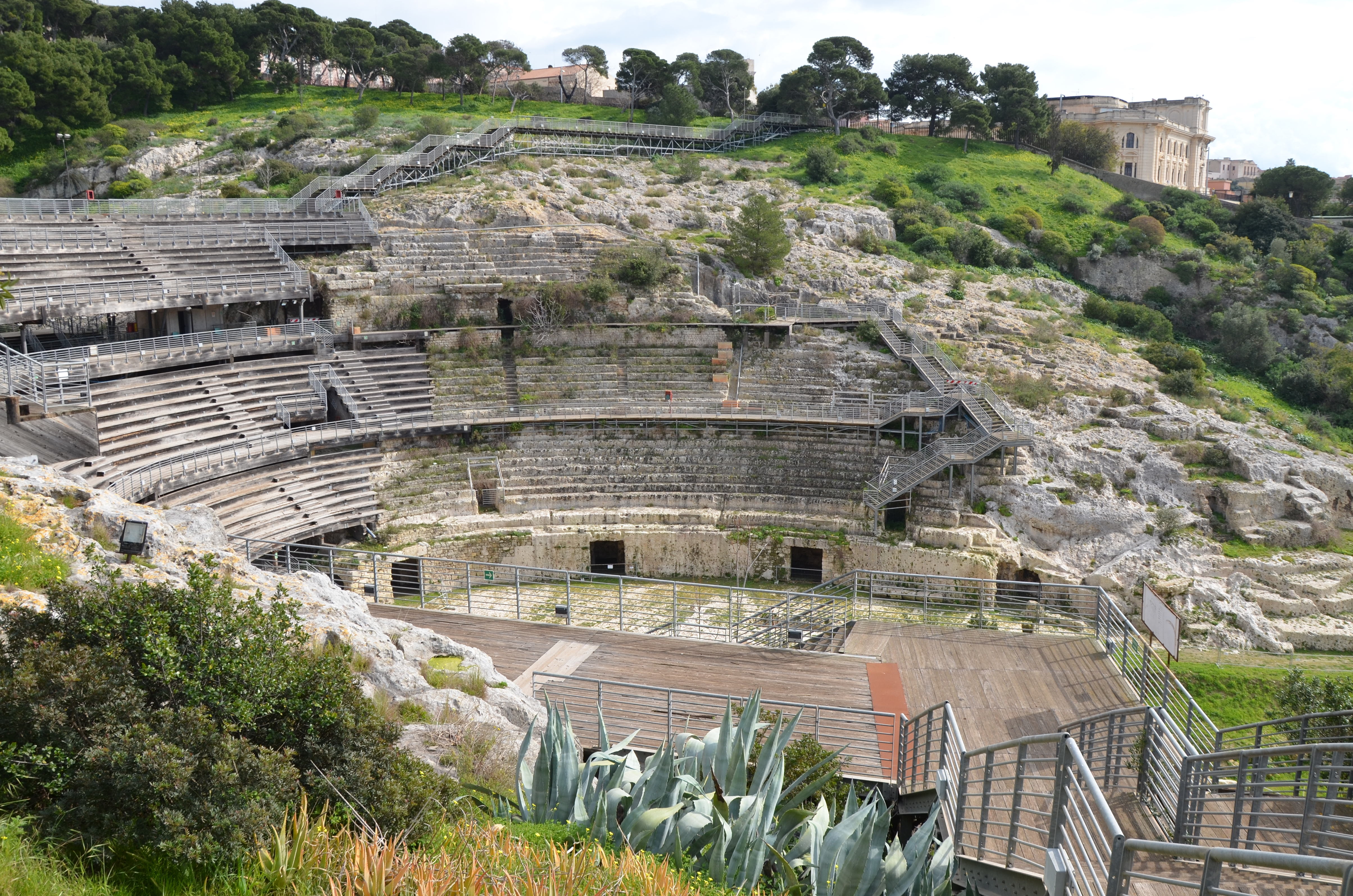 The structure, built in the 2nd century AD, was half carved in the rock, while the rest was built in local white limestone, with a façade surpassing 20 m in height. It housed fights between men and animals, of gladiators and other specialized fighters recruited in and outside Sardinia. It was also the seat of public executions. It could house up to 10,000 spectators, some one third of the Roman Caralis. The amphitheatre was no more in use starting from the 5th century AD and was subsequently used as a free stone quarry by the rulers of the area, from the Byzantines, the Republic of Pisa, the House of Aragon and others. The area was acquired by the comune of Cagliari in the 19th century and excavated under the direction of a clergyman, Giovanni Spano. It is now used for musical representations, which needed the construction of a structure whose presence has raised criticism due to its size.